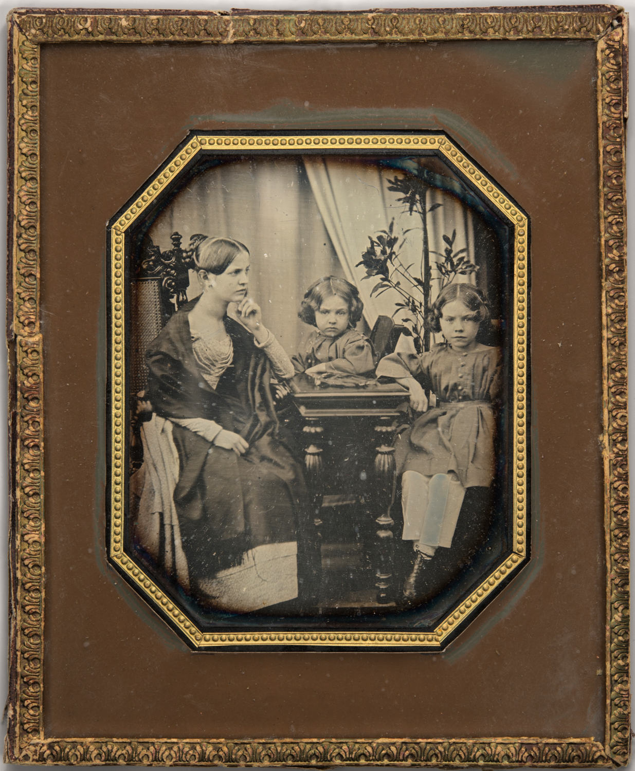 Oldest known daguerreotype in Estonia. Collection of Estonian Literary Museum. Daguerreobase: EKLA_A-37-1254 1844